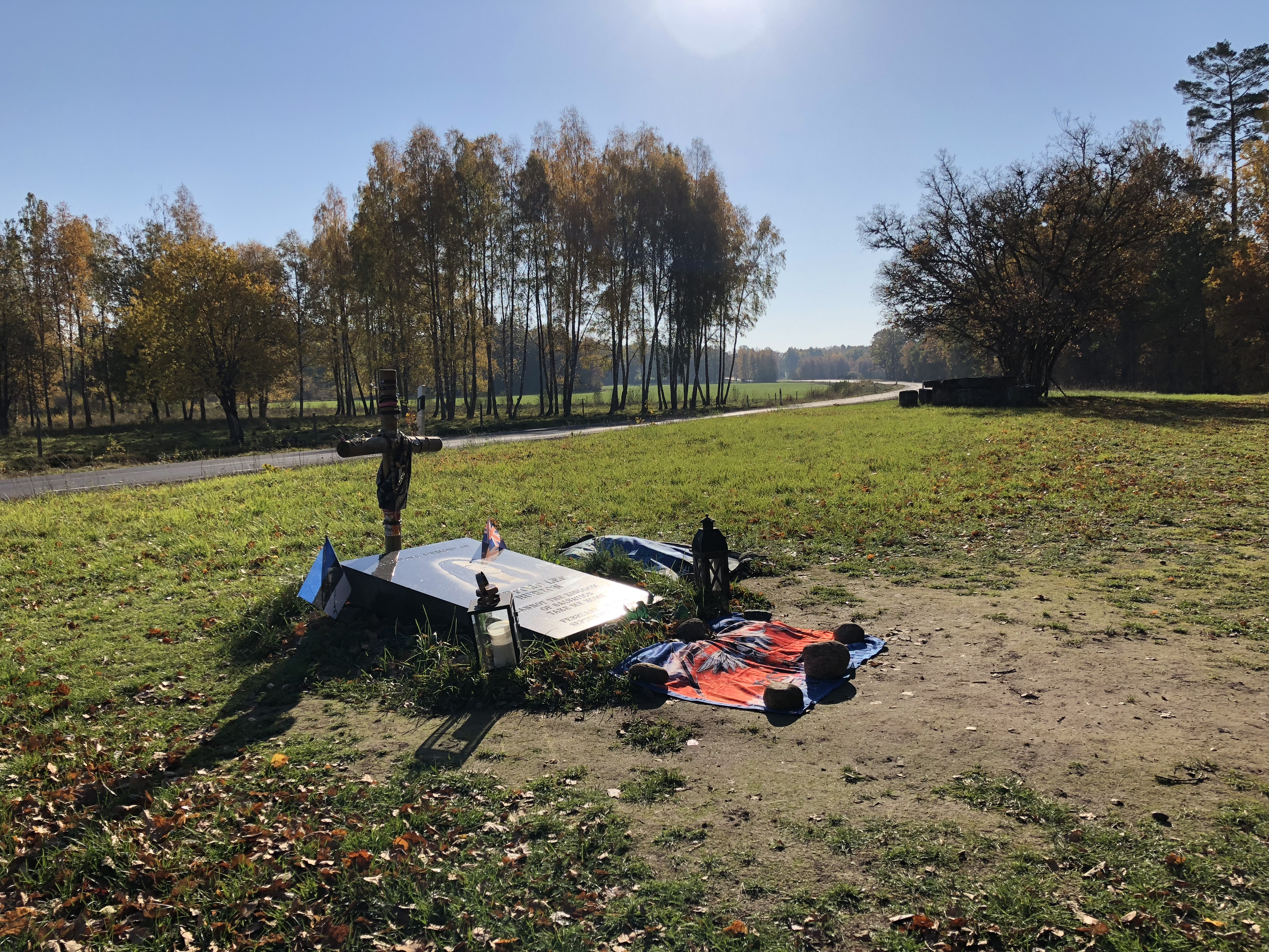 Cliff Burton memorial stone October 15, 2018